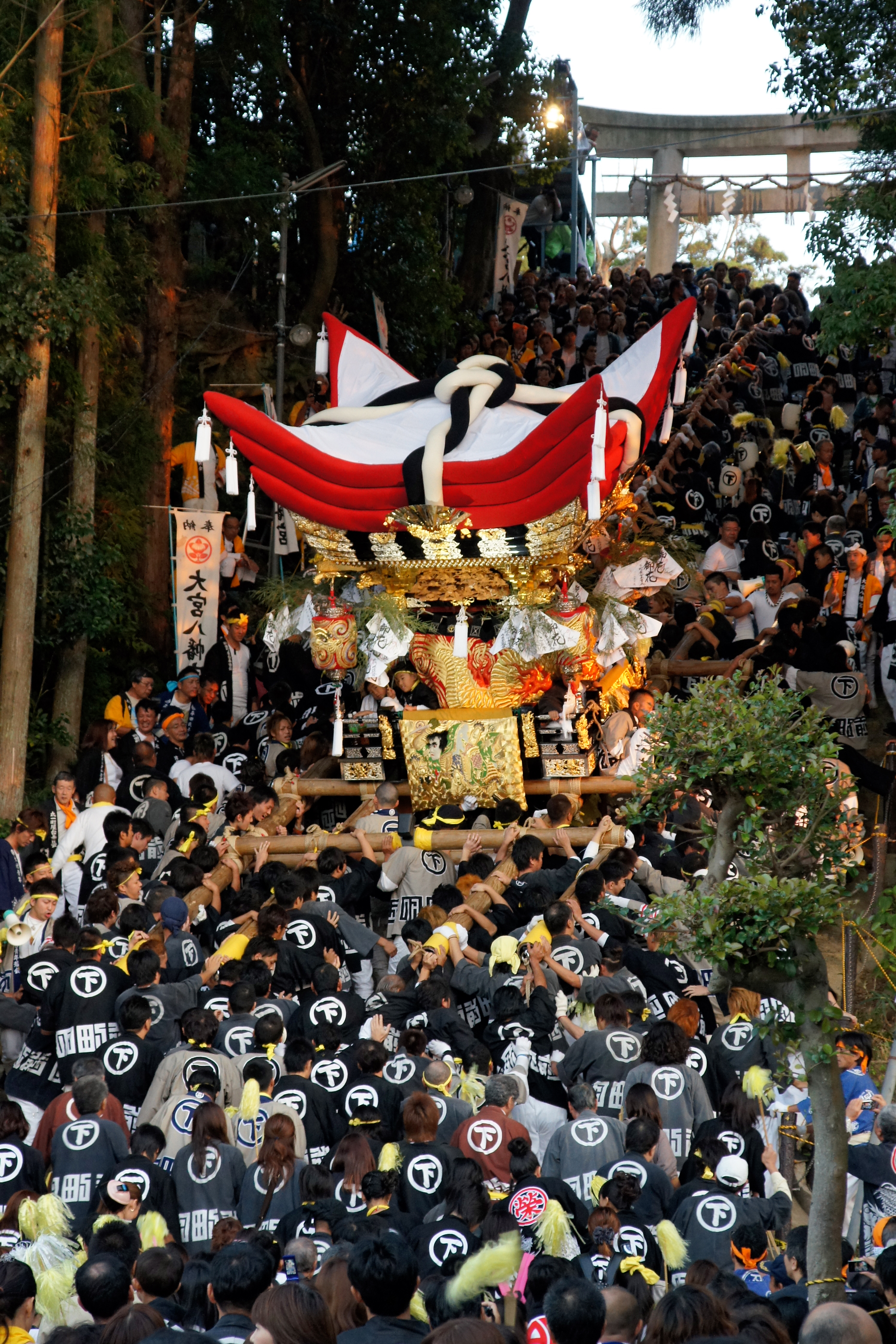 Miki Autumn Harvest Festival in Omiya-Hachimangu, Miki, Hyogo prefecture, Japan.